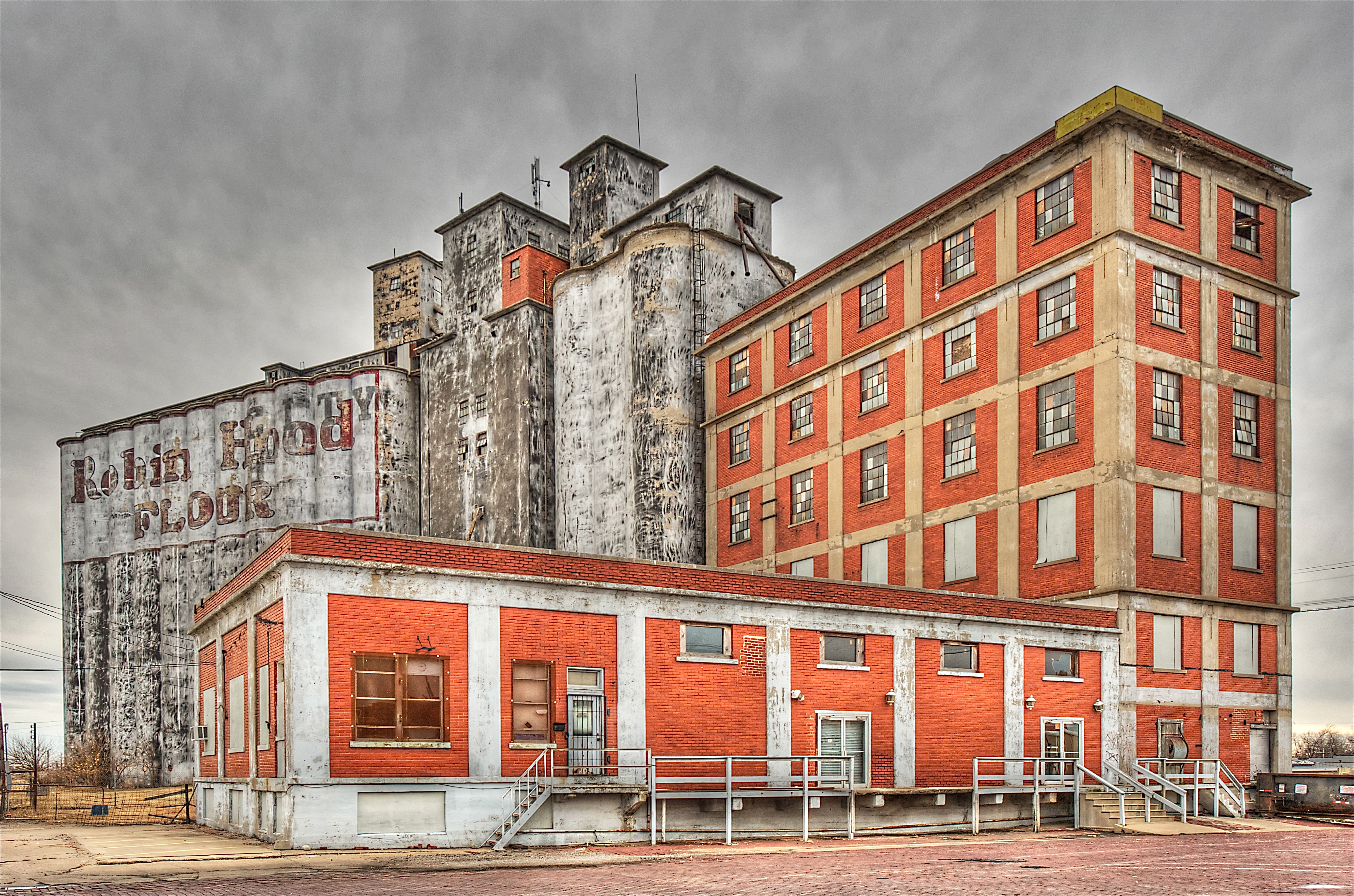 The Ponca City Milling Company Elevator, which is also known as The Robin Hood Flour Mill, is located at 114 West Central in downtown Ponca City, Oklahoma.